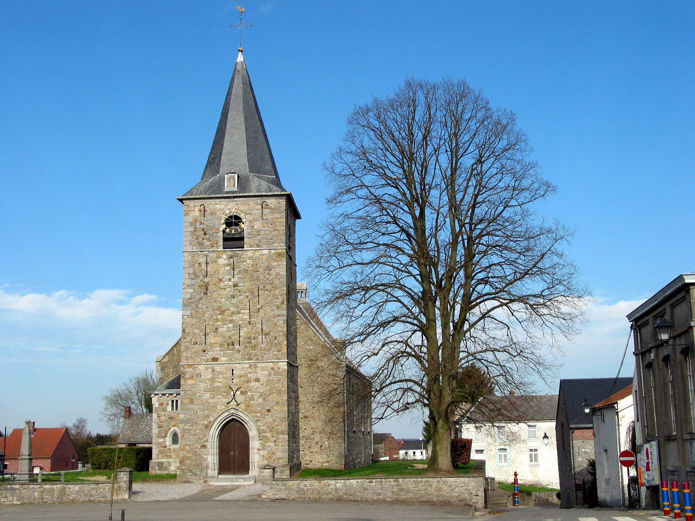 Ragnies, the St. Martin's church (XIIth century).